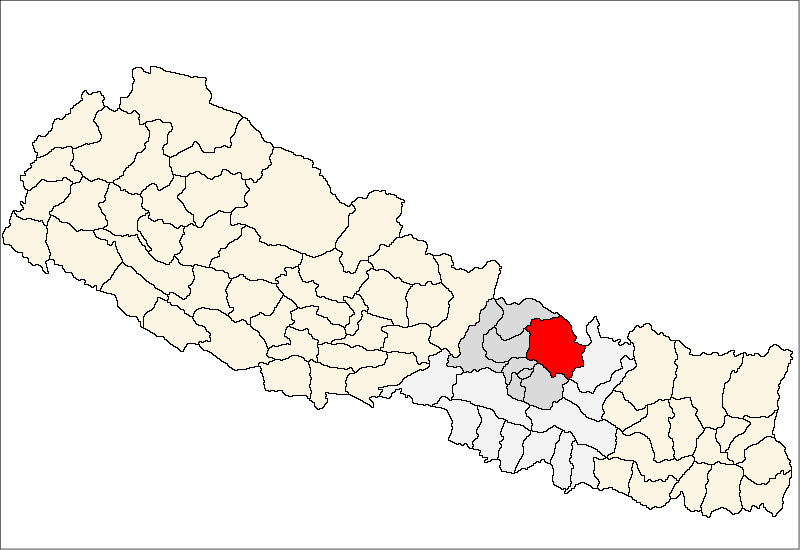 FrenchCarte de localisation dudistrict de Sindhulpalchok(wp-FR),au Népal (wp-FR).EnglishLocation map ofSindhulpalchok District(wp-EN),in Nepal (wp-EN).